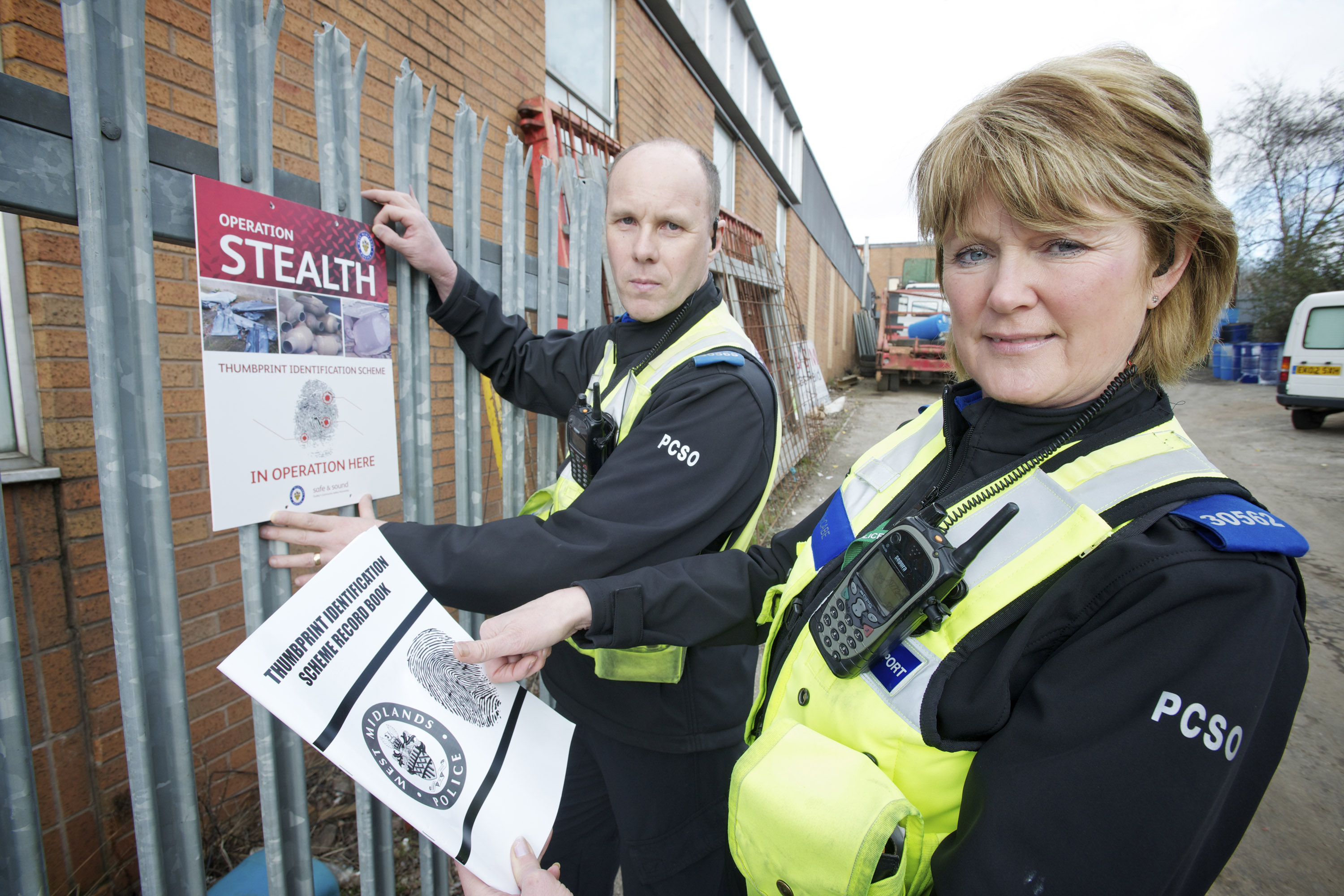 In a national first, traders offering metal for scrap across Dudley will be asked to supply fingerprints as part of a new initiative to crack down on metal theft. In a move seen more commonly in the United States, all scrap metal dealers across the area have been supplied with equipment to proactively record the prints of any customers who visit their premises to sell goods - whether they are legitimate or of suspicious origin. The scheme has been pushed by officers at Dudley Police as part of the force response to metal theft – Operation Steel. Officers, working with Dudley's community safety partnership Safe and Sound, have supplied all registered dealers with record books and ink pads to record the fingerprints of those people selling scrap metal. Signage has been erected around each premise making it clear that if you want to sell scrap metal in Dudley then you need to leave a copy of your fingerprints. This photo shows PCSOs Bev McCabe and Dave Grove installing signage at a local scrap dealership in Dudley. This image forms part of the West Midlands Police 'Photo of the Day 2012' project. We will be adding a new photo every day of the year to highlight the breadth of work carried out by police officers and staff across the West Midlands. For more photo of the day images, please visit this link.